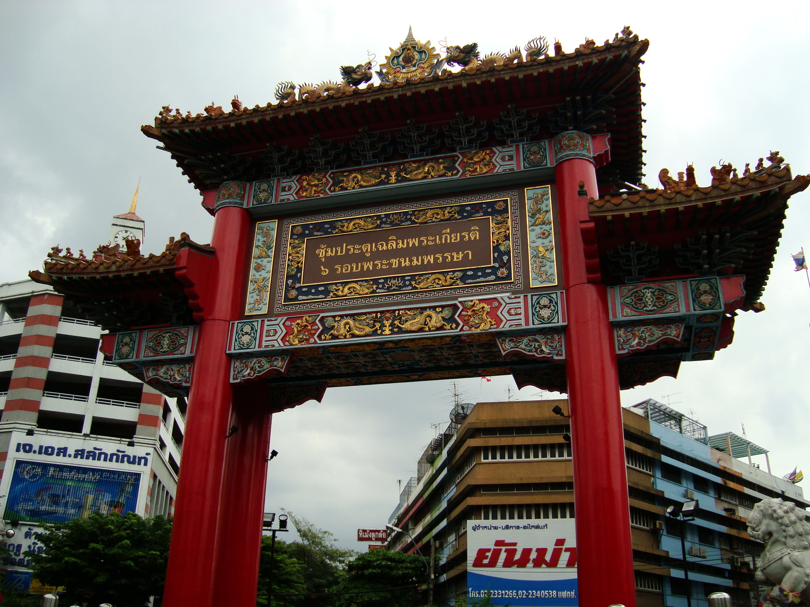 Arch in Samphanthawong District, Bangkok, Thailand.